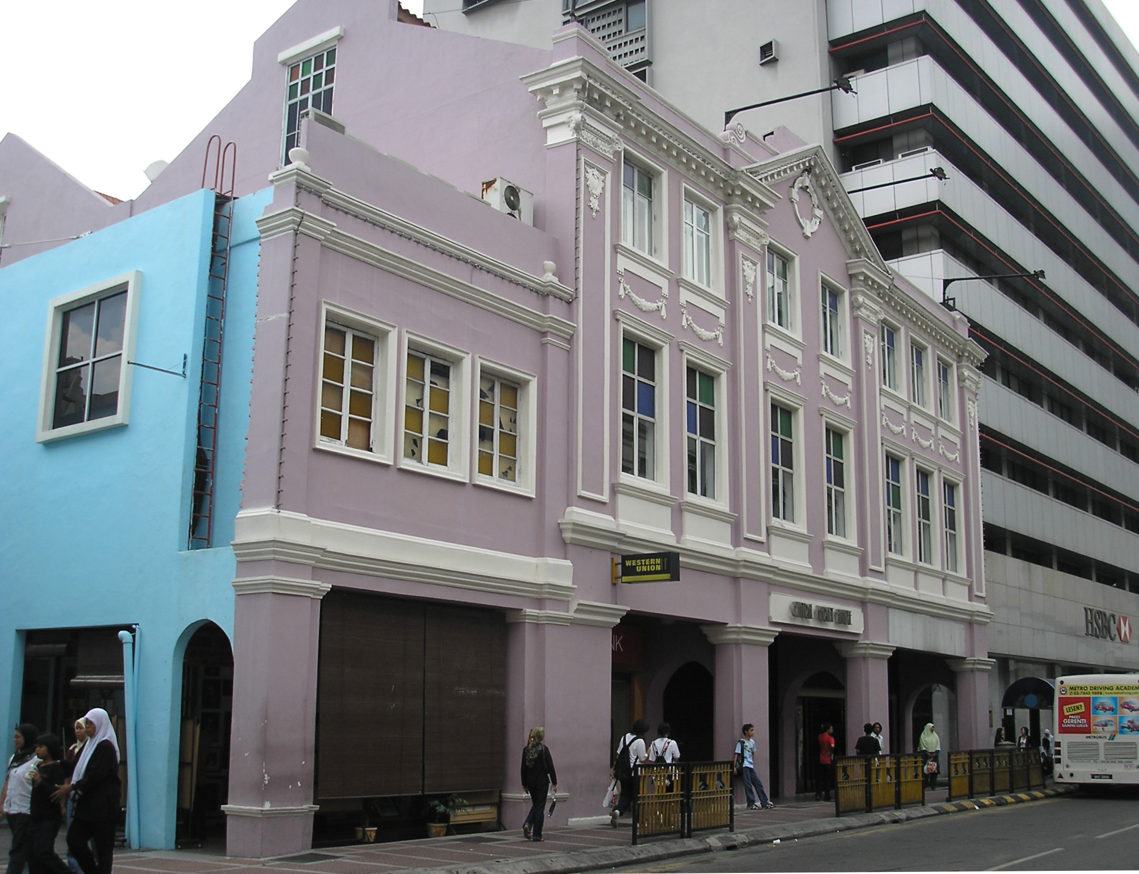 The annexe (also known at "The Annexe") of Kuala Lumpur's Central Market along Jalan Hang Kasturi (Rodger Street) in the City Centre, Kuala Lumpur, Malaysia.